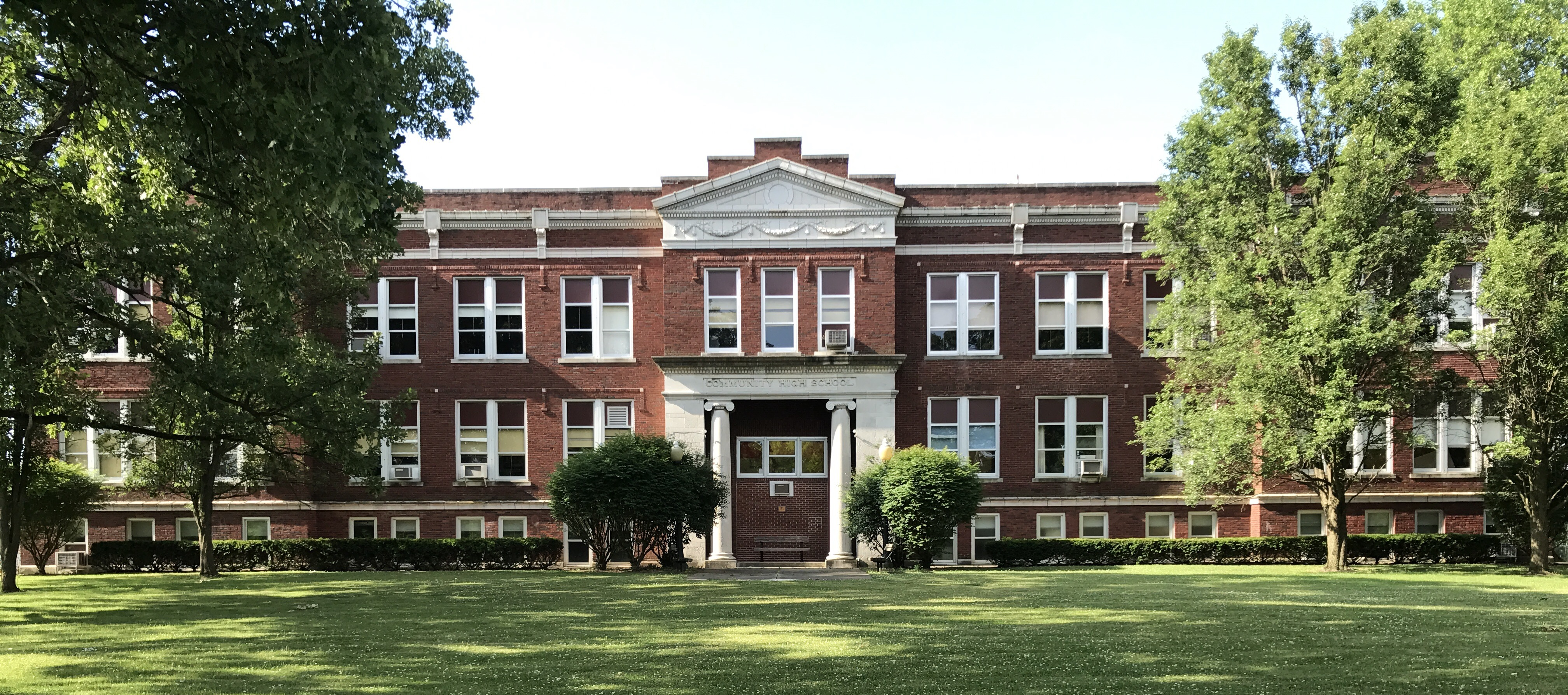 Front façade of Hillsboro High School (HHS) wide